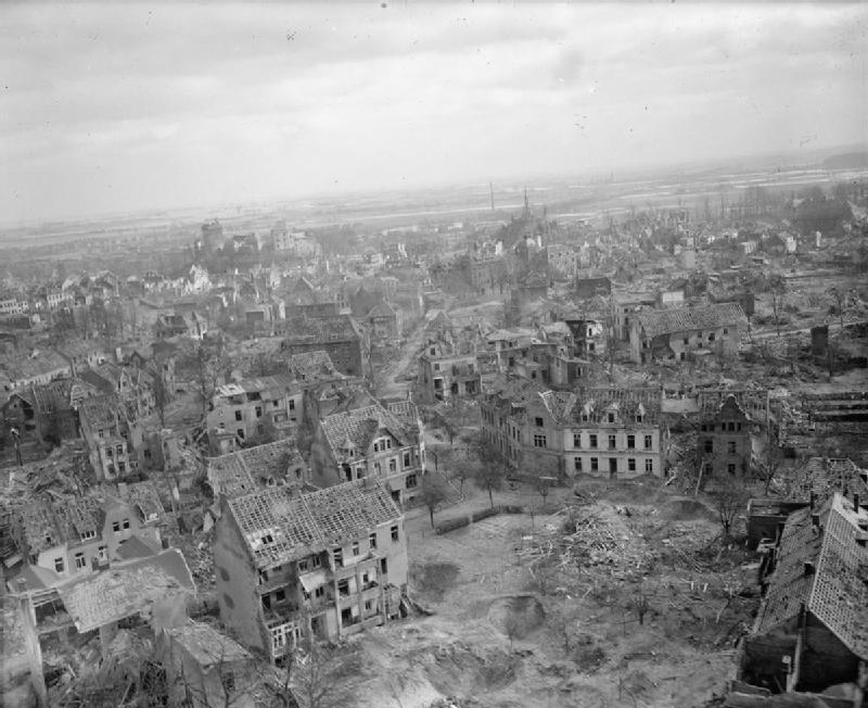 Royal Air Force 1939-1945- Bomber Command The German town of Kleve, photographed from a low-flying Auster aircraft, a few days after the major Bomber Command raid on 7-8 February 1945, carried out as a prelude to Operation 'Veritable', the British and Canadian advance across the Rhine.